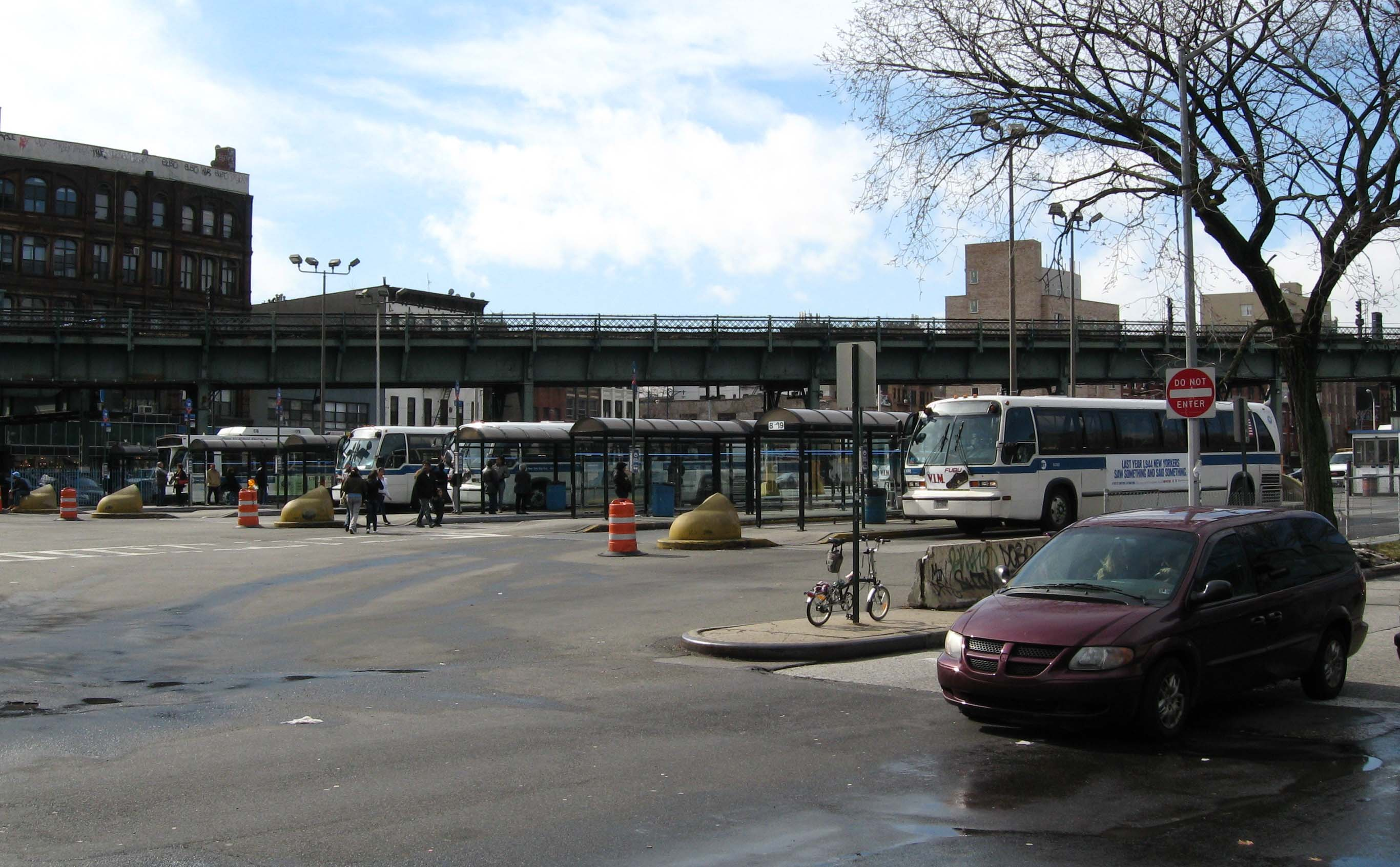 Marcy Avenue (BMT Jamaica Line) surface terminal for Brooklyn buses